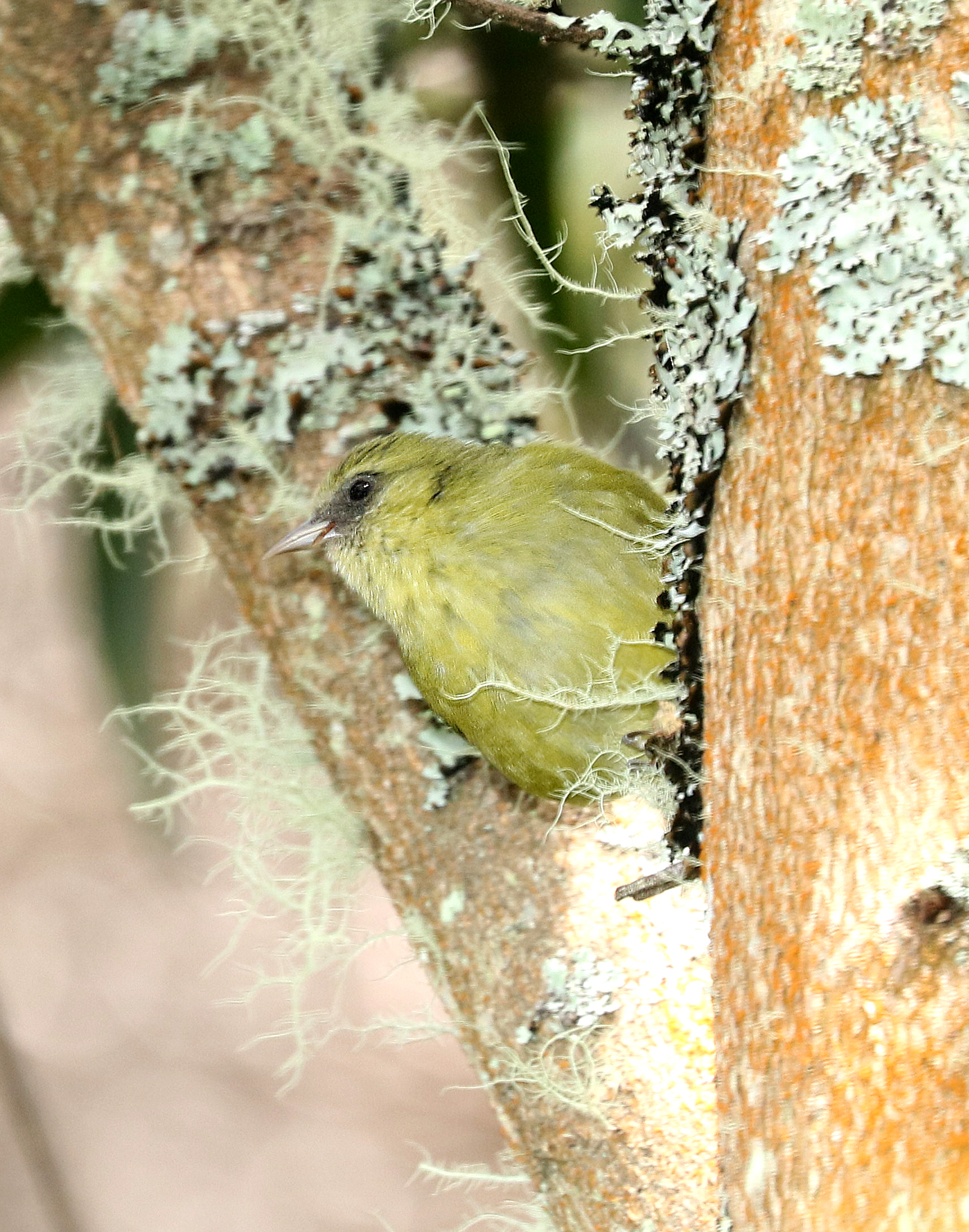 HAWAII CREEPER (8-30-2017) hakalau forest national wildlife refuge, hawaii co, hawaii -30 female (5)